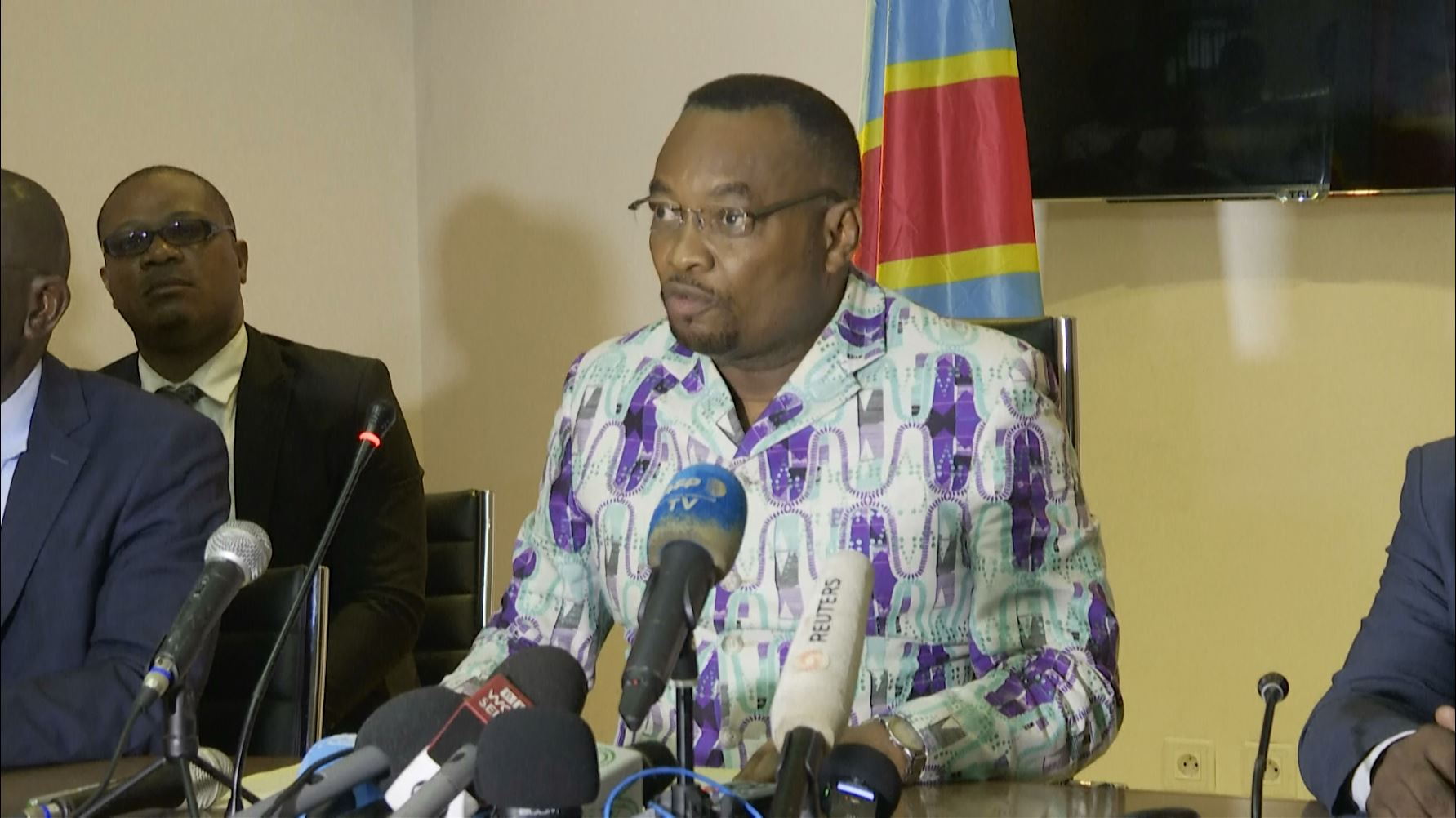 Congolese Minister of Health Eteni Longondo during a press conference at Kinshasa (10 March 2020) to announce the discovery of a first cast of coronavirus COVID-19 in the DRC.